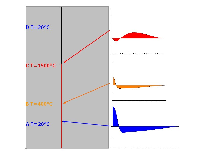 Stresses in a plate being welded